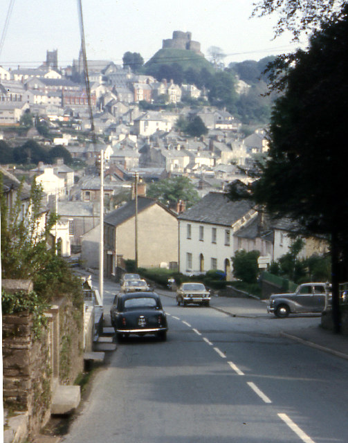 Launceston from Saint Stephens Hill 1973. Taken from about half way up Saint Stephens Hill. Original on Boots colourslide film using Agfa Silette 35mm camera